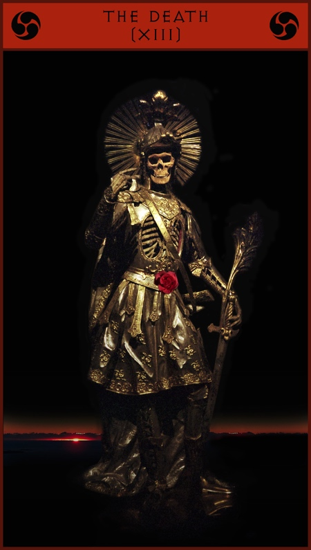 Detail from Marita Liulia's multimedia artwork Tarot.